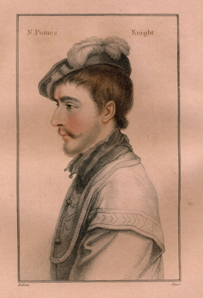 Hans Holbein portrait of Nicholas Poins